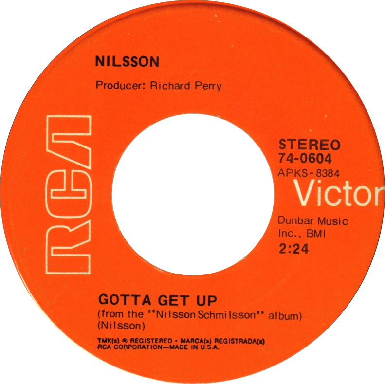 "Gotta Get Up" by Harry Nilsson, the B-side track of the US vinyl single release of Nilsson's "Without You"